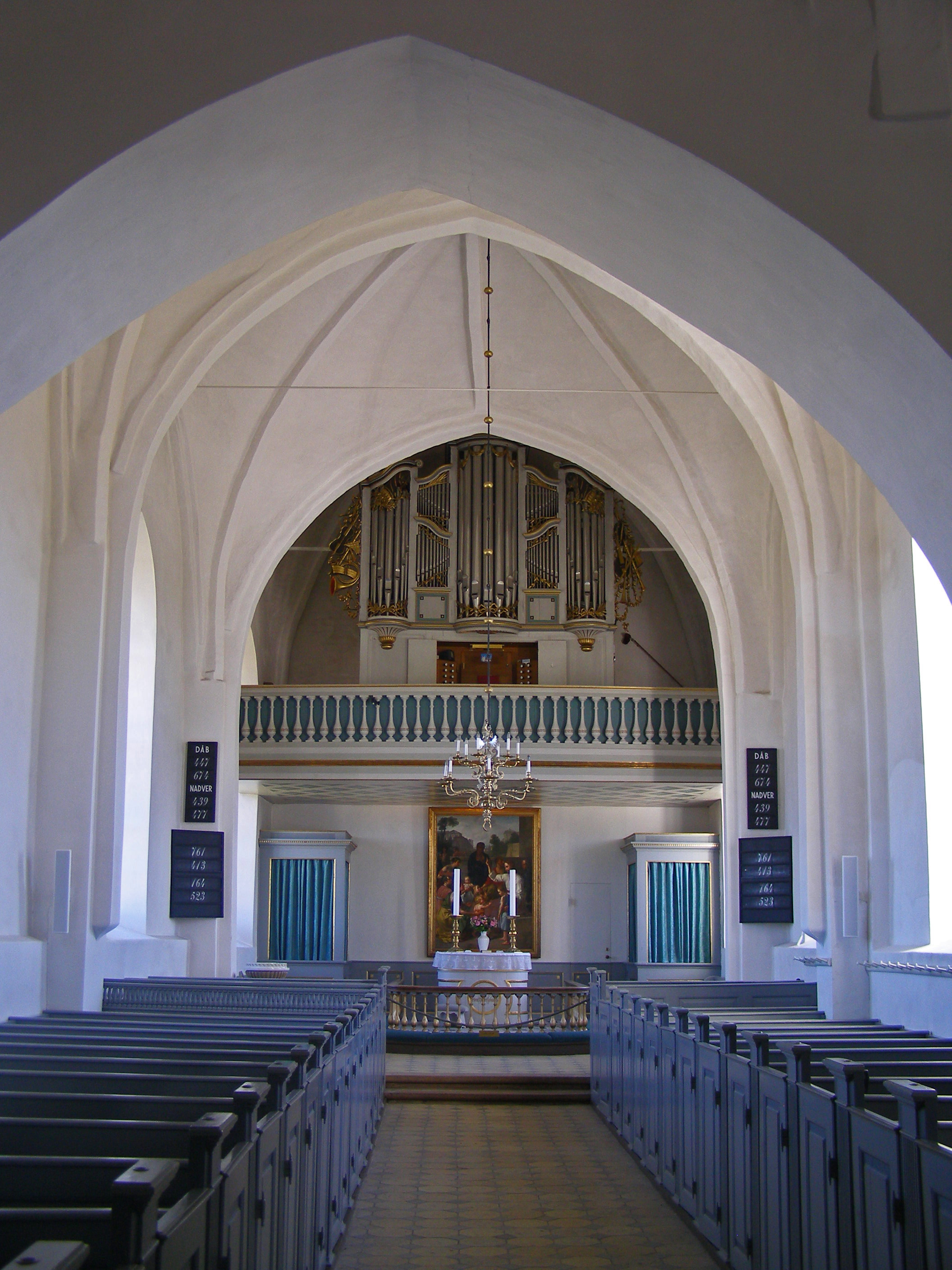 photographer:selfdate:July 06subject:horne church interior